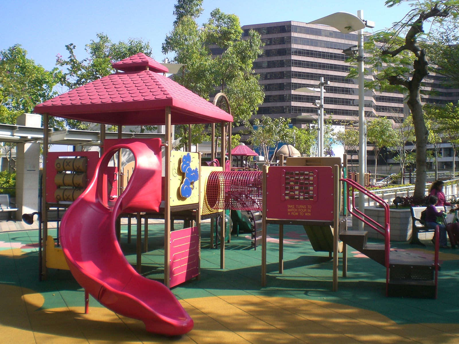 中間道兒童遊樂場滑梯